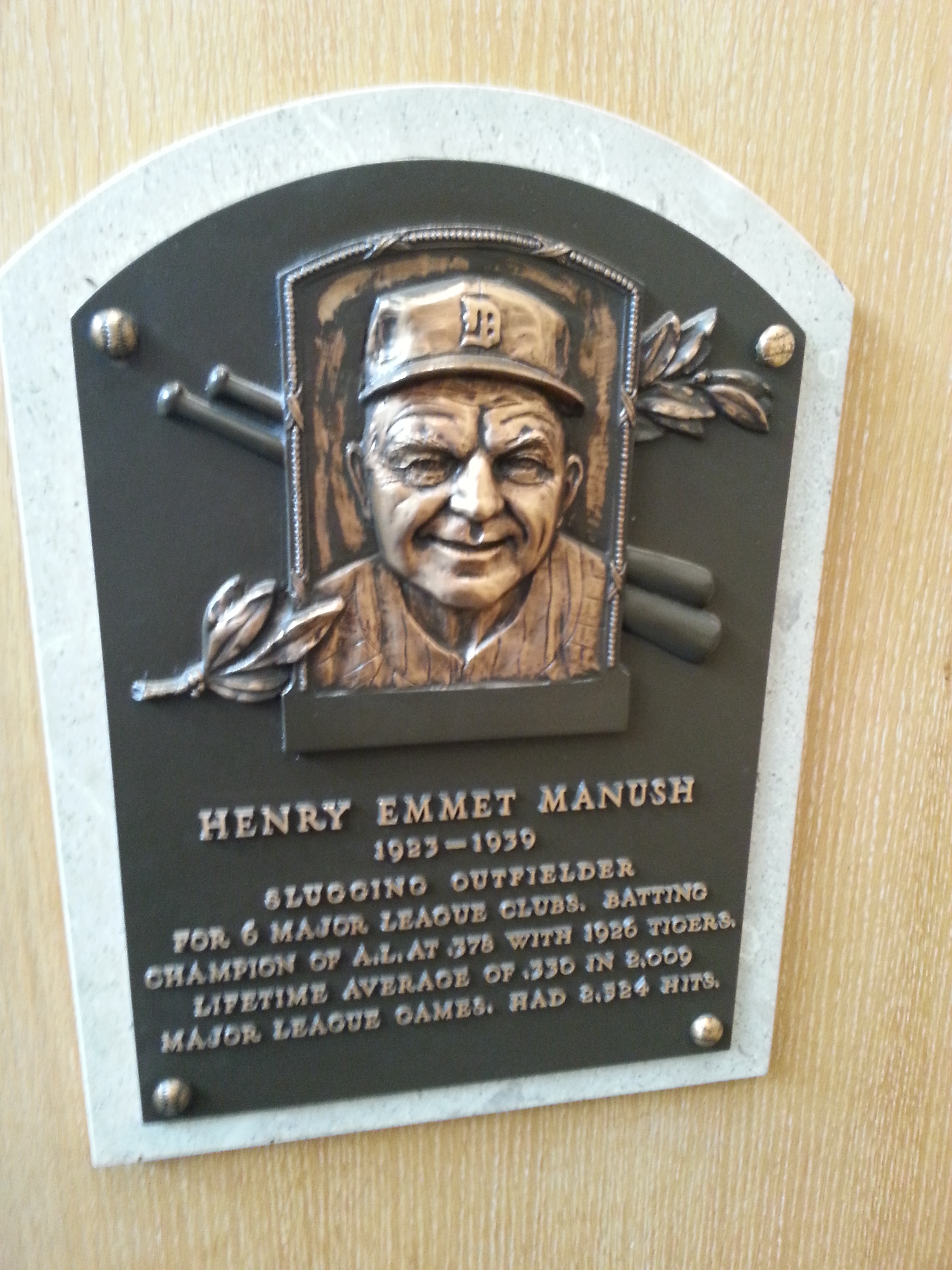 Heinie Manush plaque in the National Baseball Hall of Fame